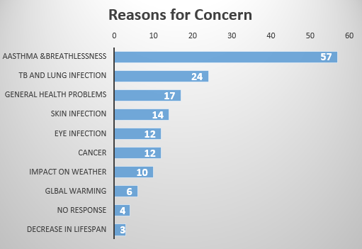 Aasthma is the most common health problem faced by Indians. Not surprisingly, more than half of the patients suffering from Aasthma acquire it due to air pollution. TB and Lung infection are the second most popular health problem caused by air pollution.